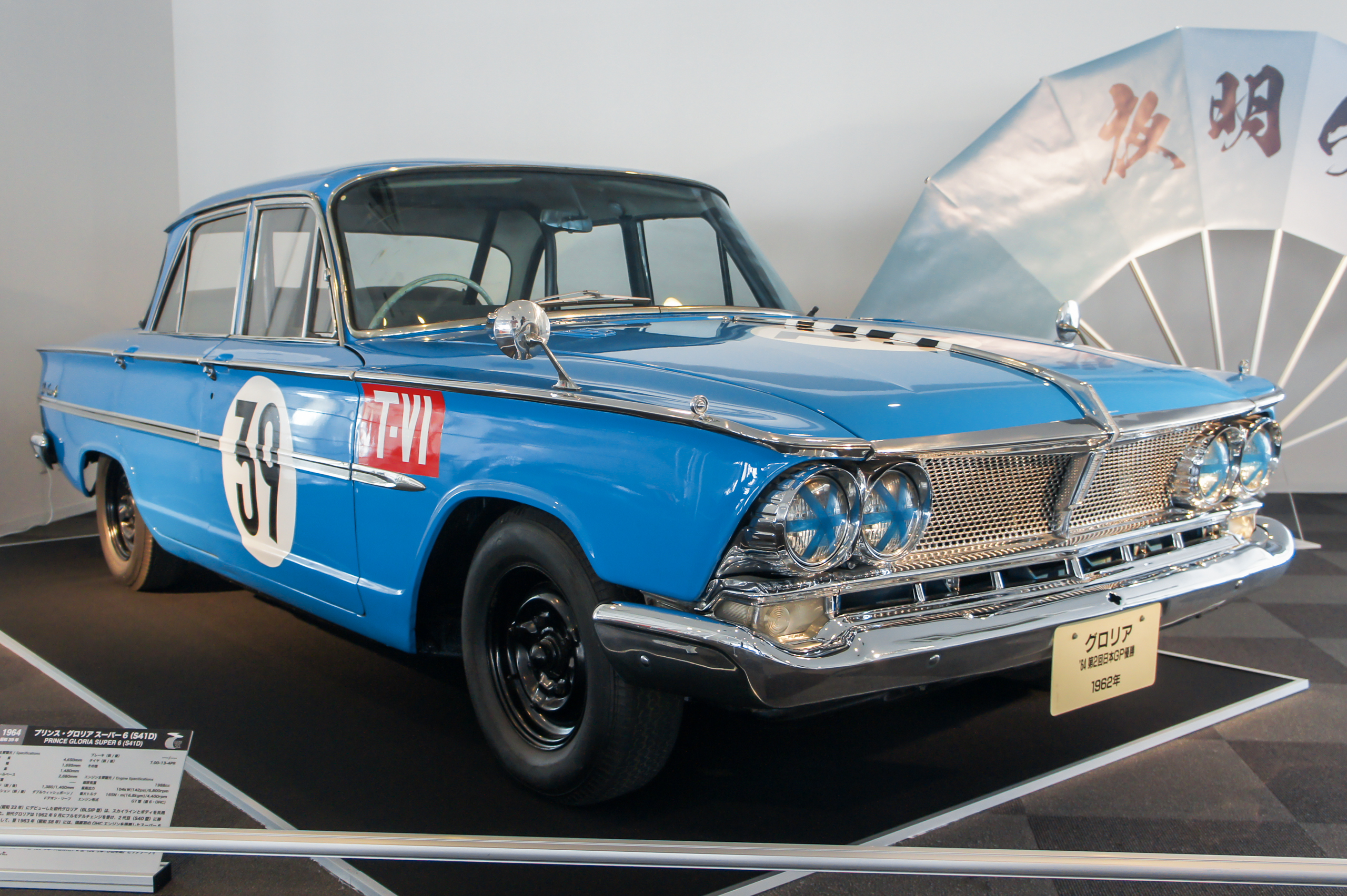 Suzuka Circuit 50th Anniversary "Time Machine Exhibition": 1964 Prince Gloria Super 6 (S41D), 1964 Japanese GP "T-VI class" winner